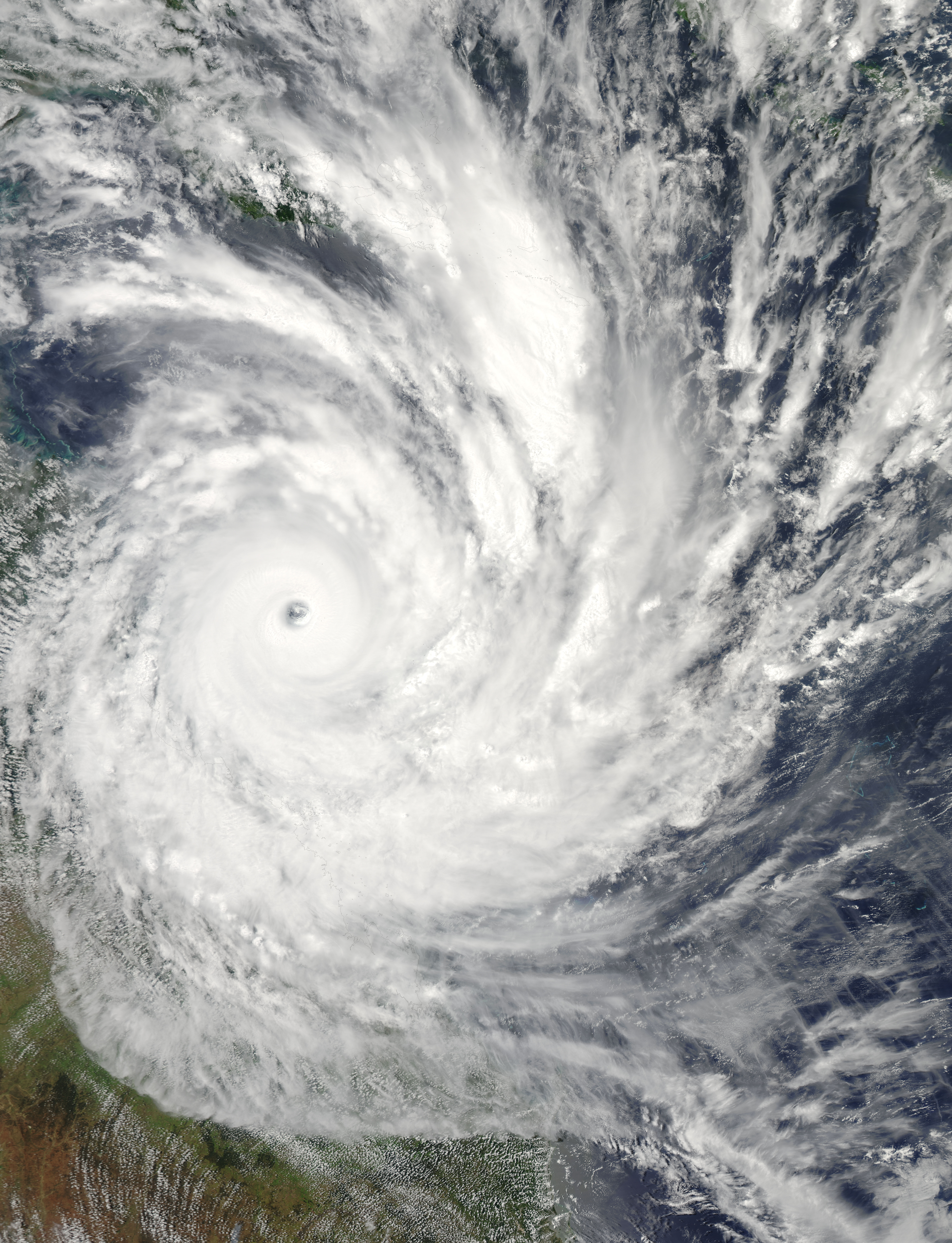 Satellite image of Severe Tropical Cyclone Yasi approaching Queensland, Australia on 2 February 2011